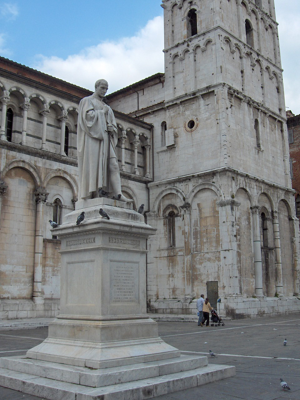 Statue of Francesco Burlamacchi in Piazza San Michele in Lucca, Italy and Church of San Michele. Own photo - photo made by Georges Jansoone on 10 October 2005